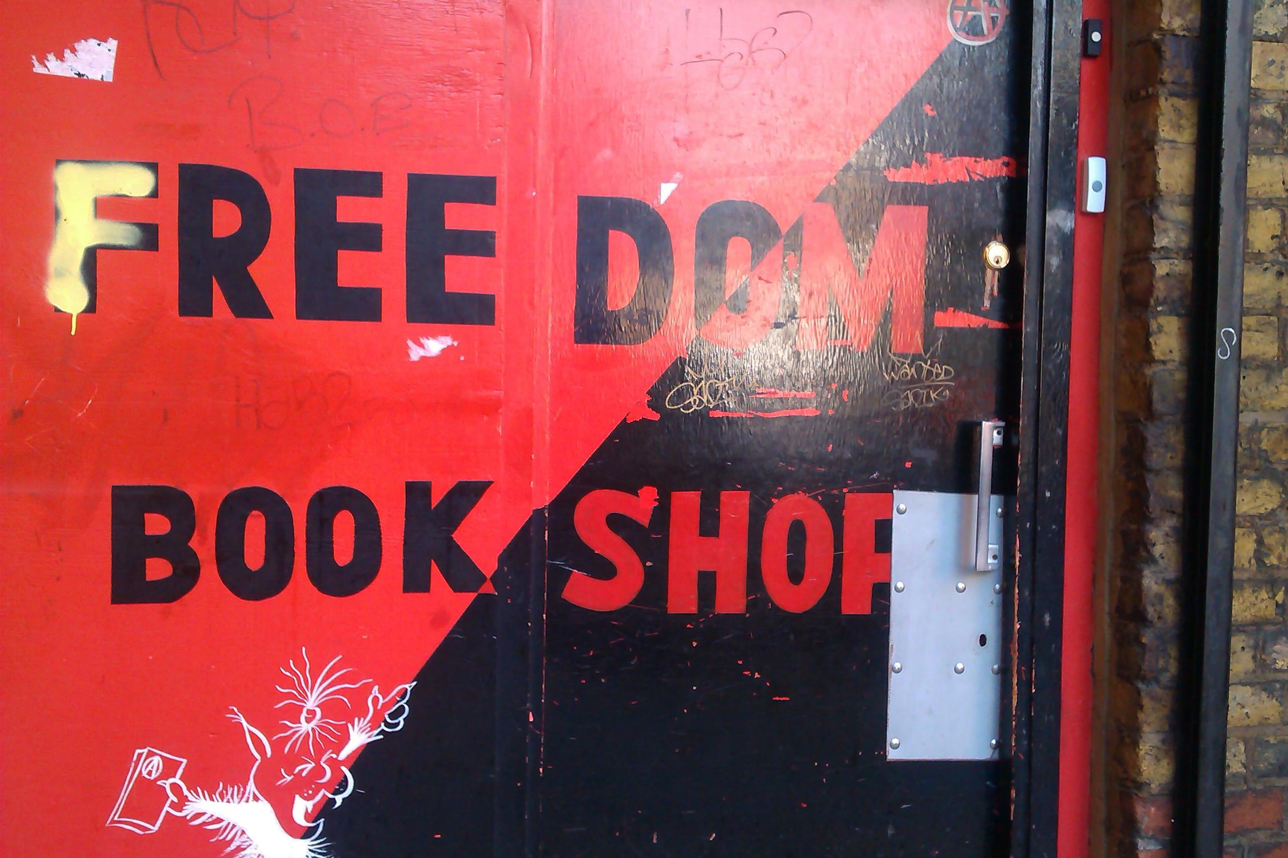 Door of Freedom Book Shop in London, United KingdomEsperanto: Pordo de la librovendejo Freedom Book Shop en Londono, Unuiĝinta Reĝlando